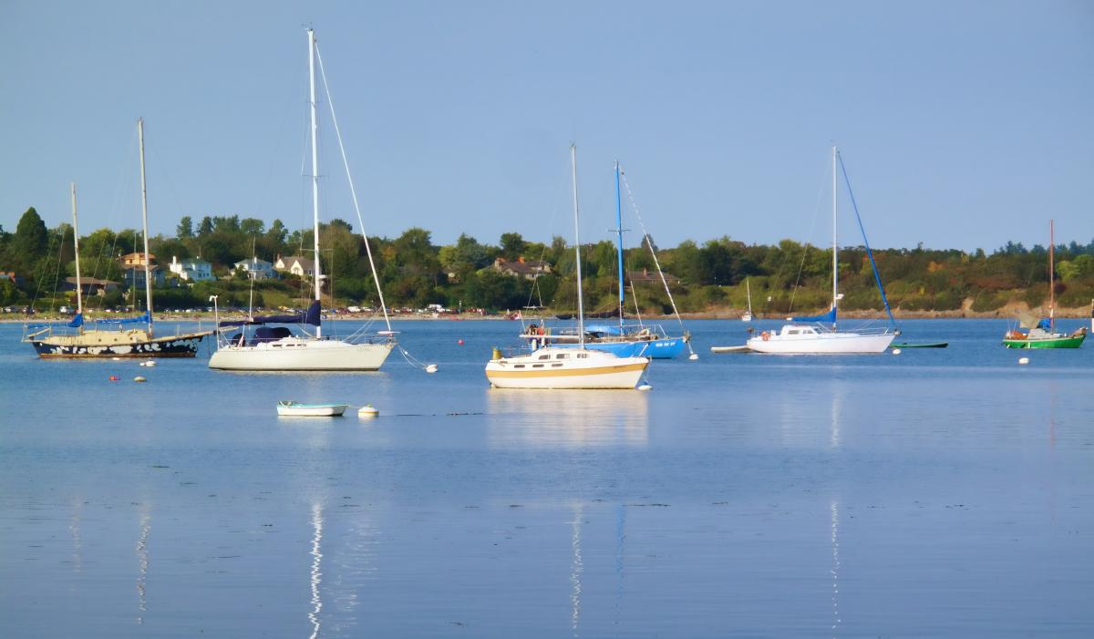 Oak Bay